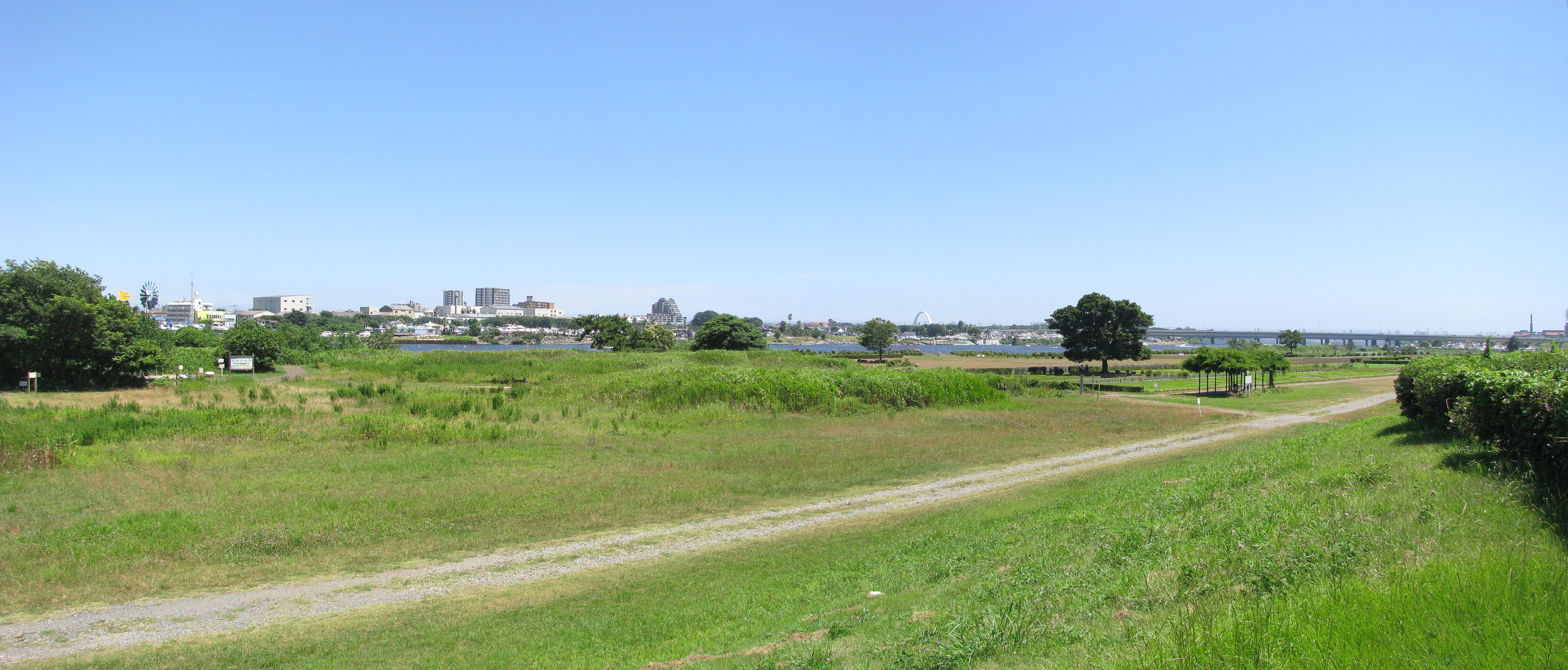 The Sagami River. This location is Banyū in Hiratsuka, Kanagawa Prefecture, Japan.